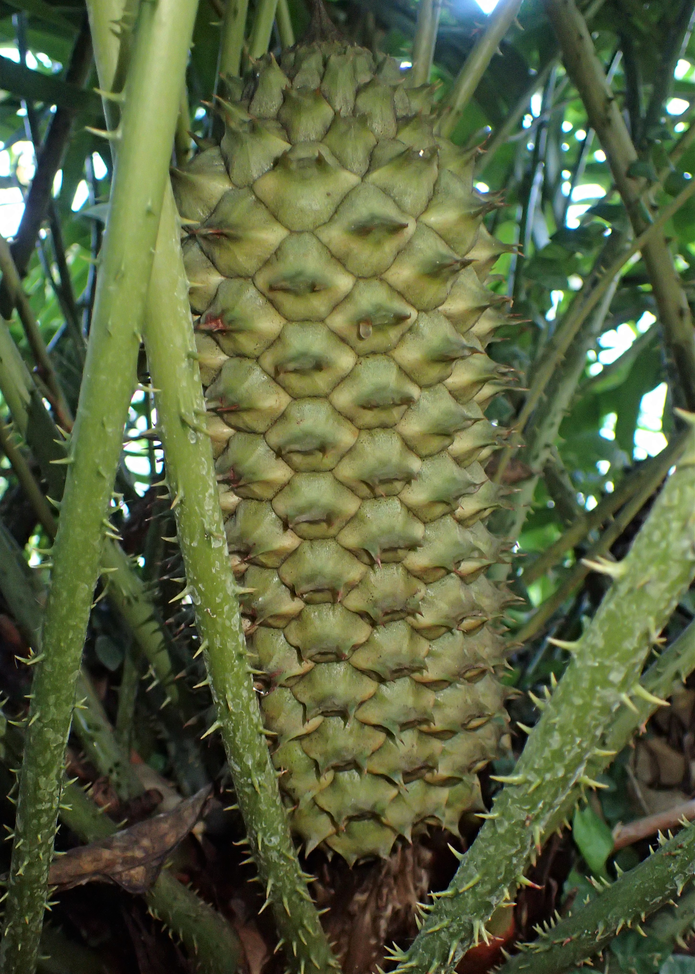 Ceratozamia mexicana in Botanical Garden of PBA Institute in Bydgoszcz